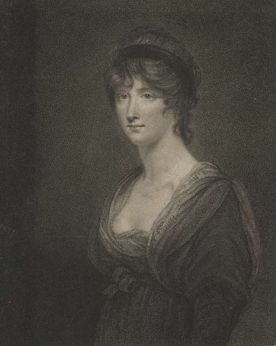 Portrait of Jane Hope, Viscountess Melville (1766–1829), second wife of Henry Dundas, 1st Viscount Melville